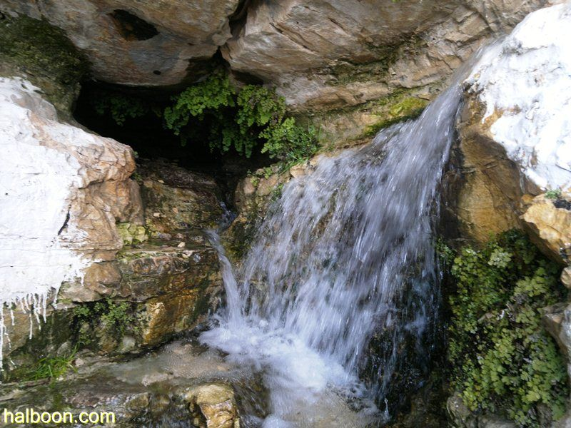 نبع من حلبون